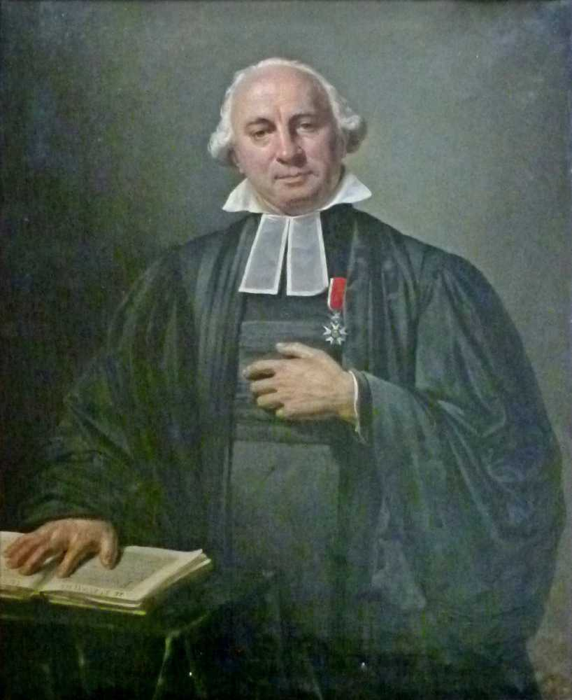 A portrait of Pastor Paul-Henri Marron